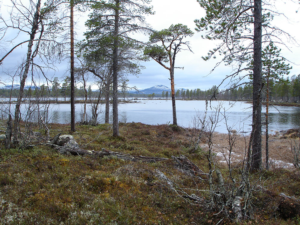 The outlet of lake Tjieggelvas in northern Sweden, viewed from the east